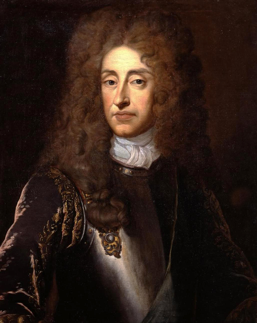 Portrait of King James II